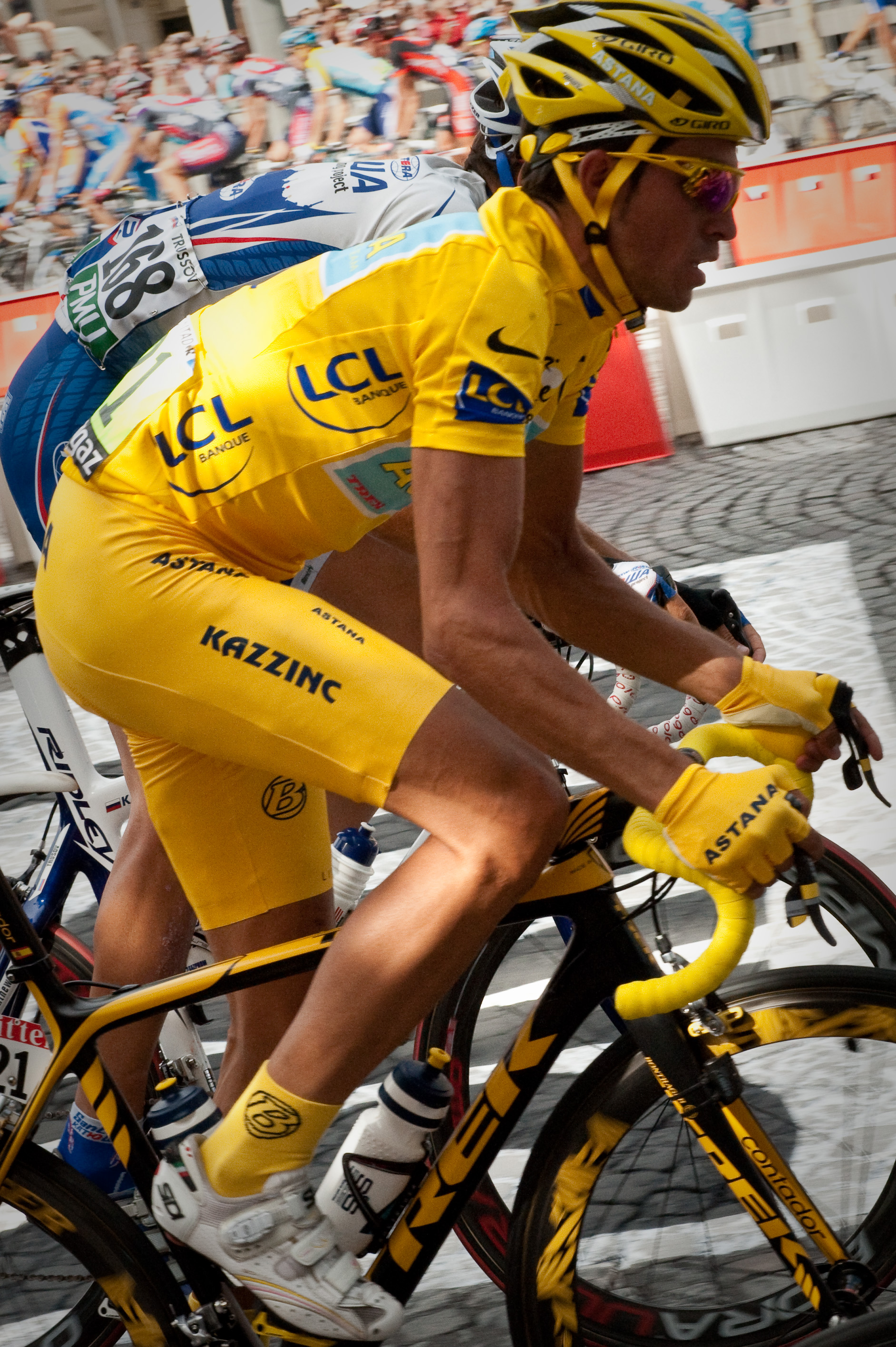 Alberto Contador, winner of 2009 Tour de France, wearing the yellow jersey at the Champs-Élysées.